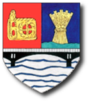 Coat of arms of Ialomița County, Romania.